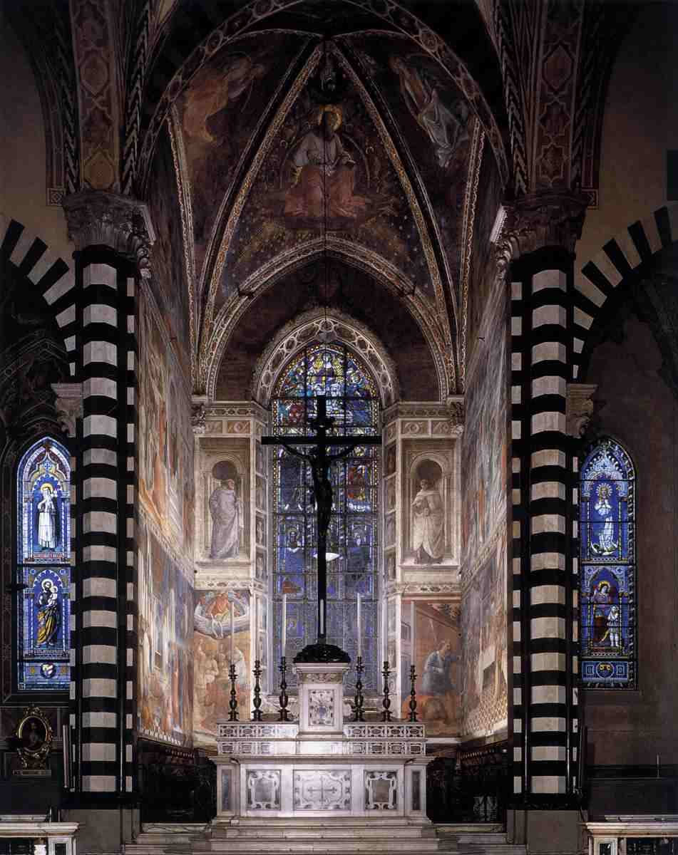 View of the fresco cycle in Prato Cathedral, Italy